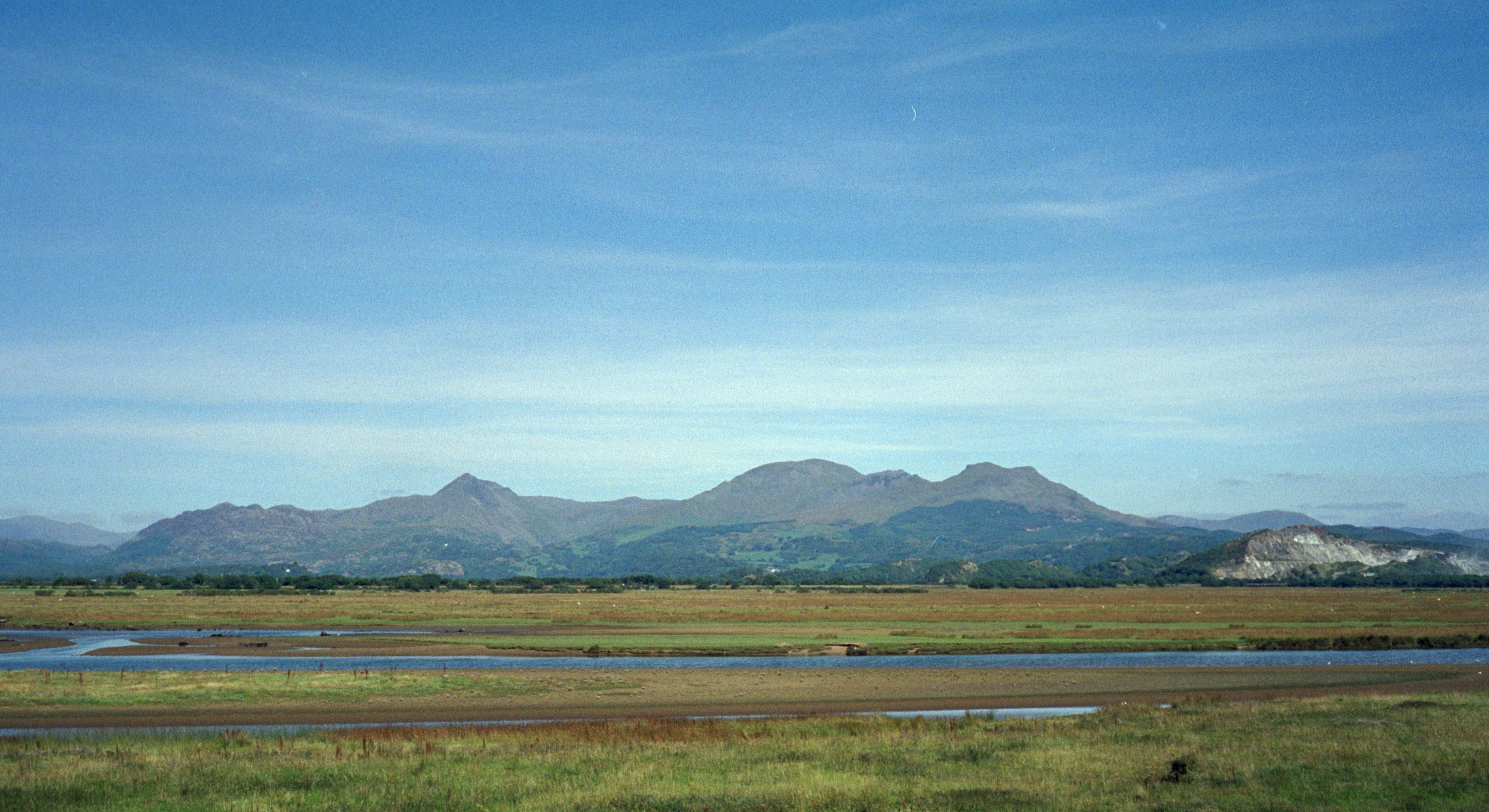 View inland from a Ffestiniog Railway train on the Cob at Porthmadog.